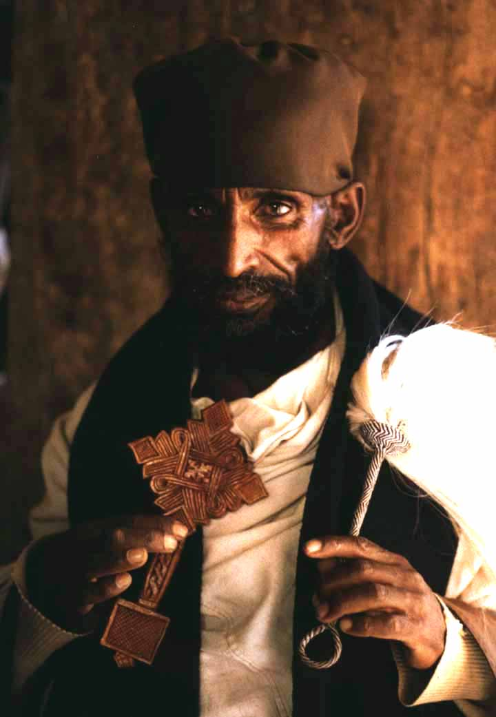 Ethiopian Orthodox priest